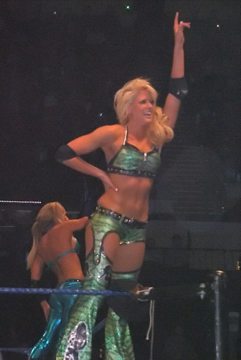 Kelly Kelly @ Adelaide, South Australia 'Smackdown/ECW' house show on the 14th of June '08